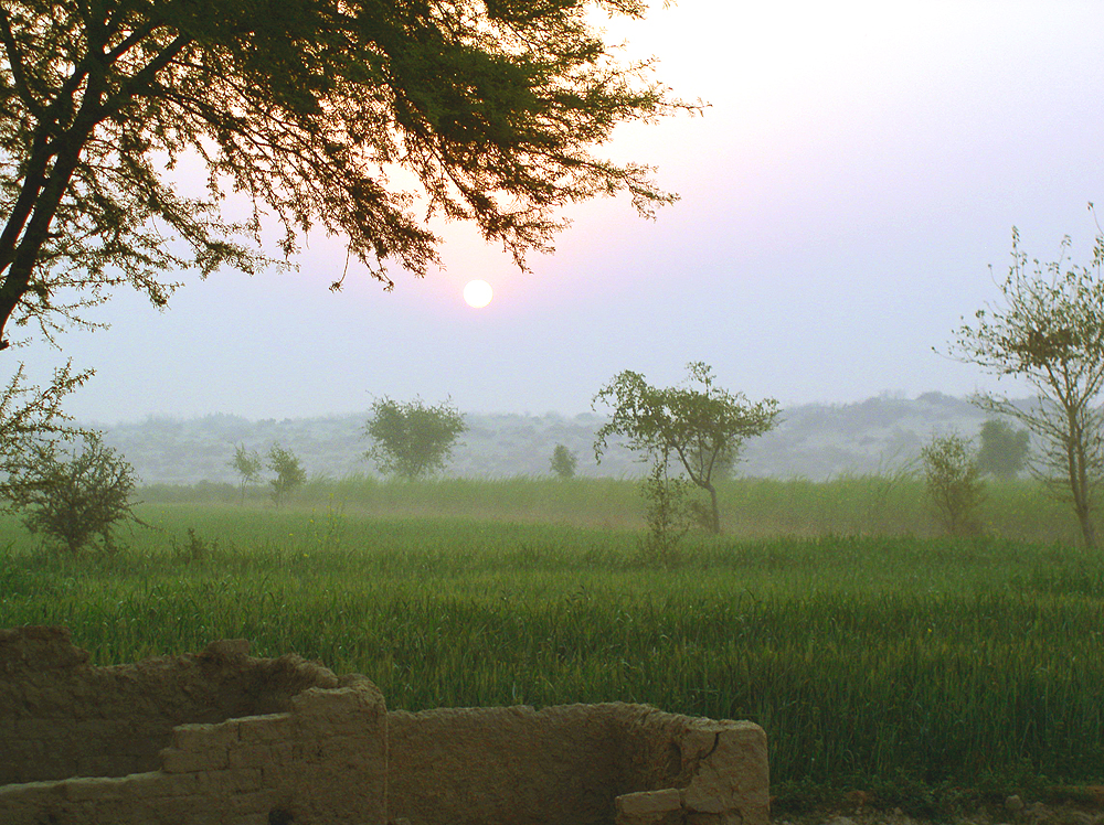 Beautiful sunrise at almost 5 AM on a february morning. I stayed at night in a 'dera' made of clay and it was so cold at night. This is just outside the Dera. The desert start just a few meters on the right side.